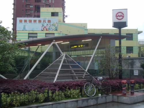 Outside the Fengqiao Road metro station in Shanghai